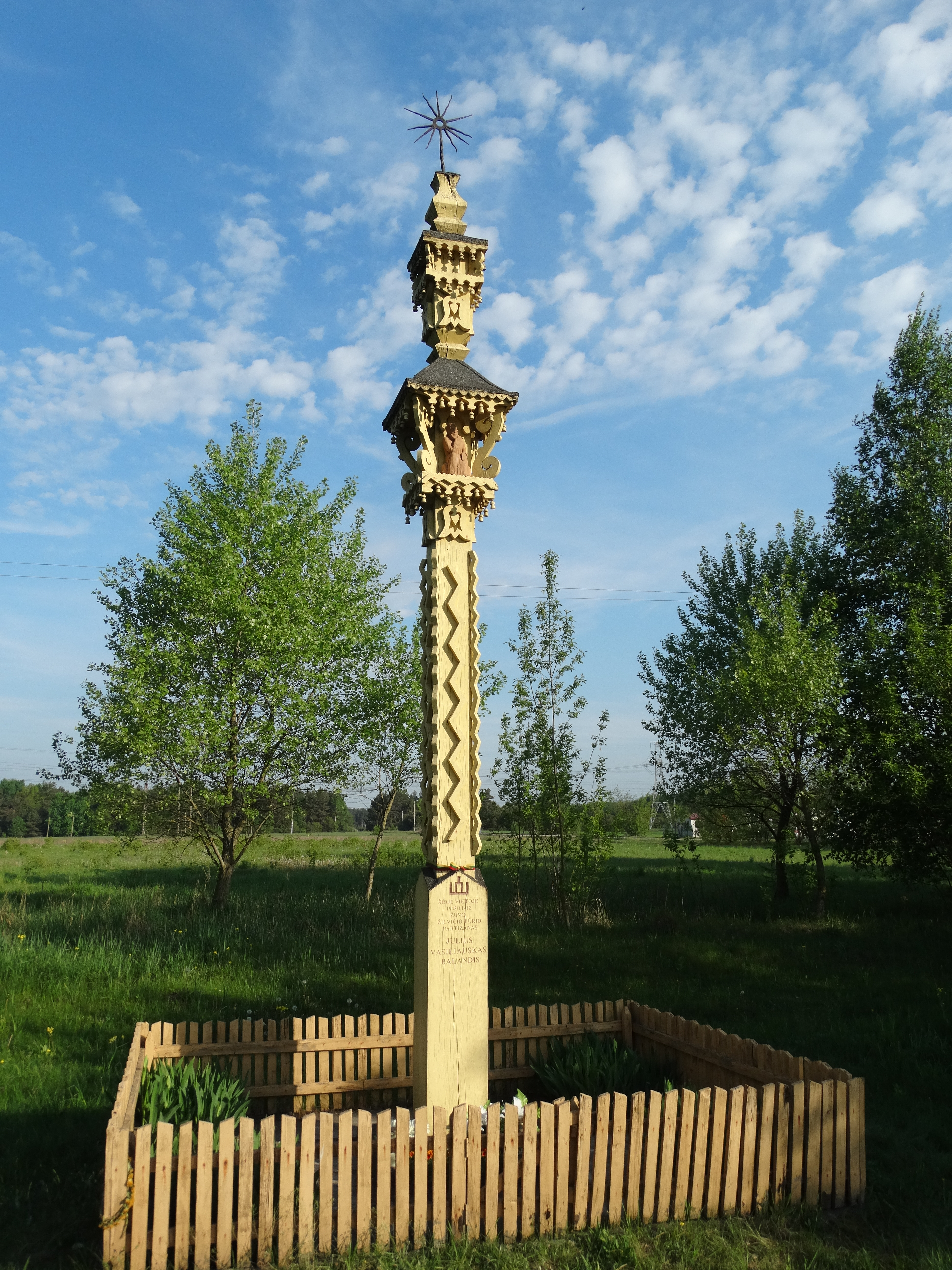 Monument in memory of Lithuanian partisan Julius Vasiliauskas–Balandis, Jonava